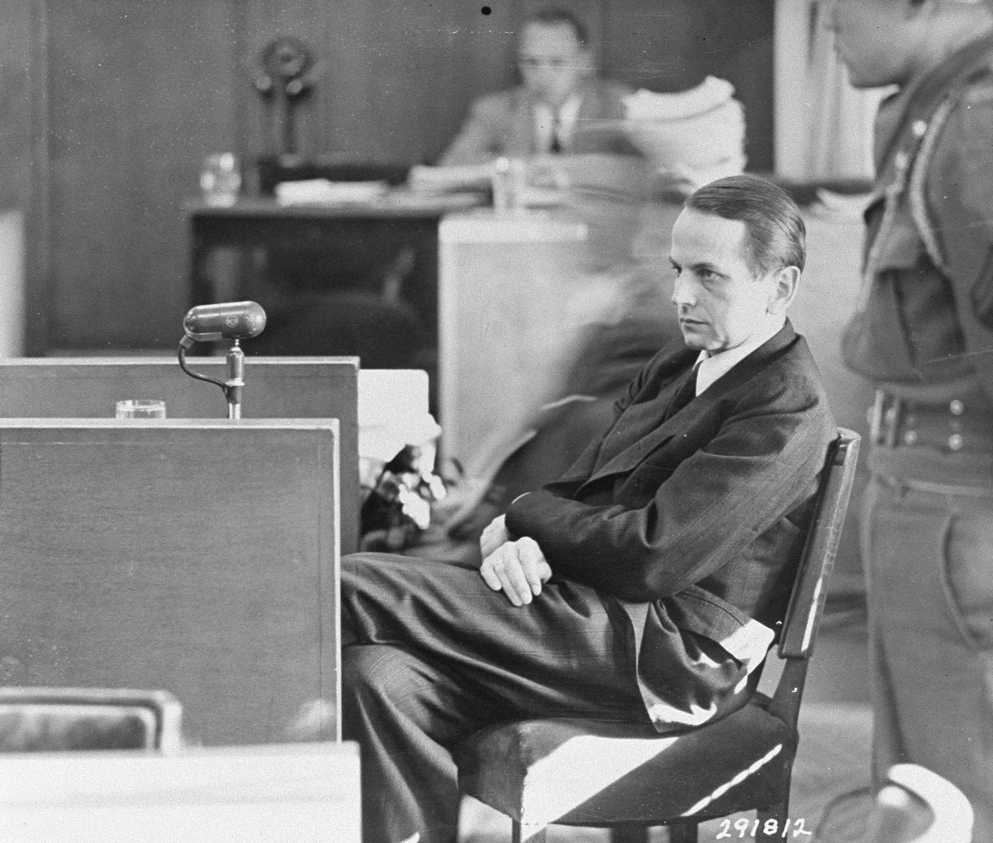 Defendant Otto Ohlendorf testifies on his own behalf at the Einsatzgruppen Trial. and Otto Ohlendorf.